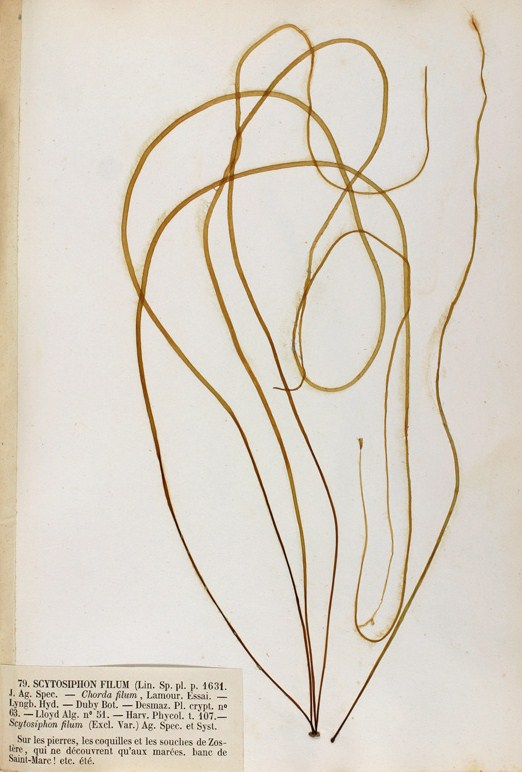 « Scytosiphon filum » = Chorda filum